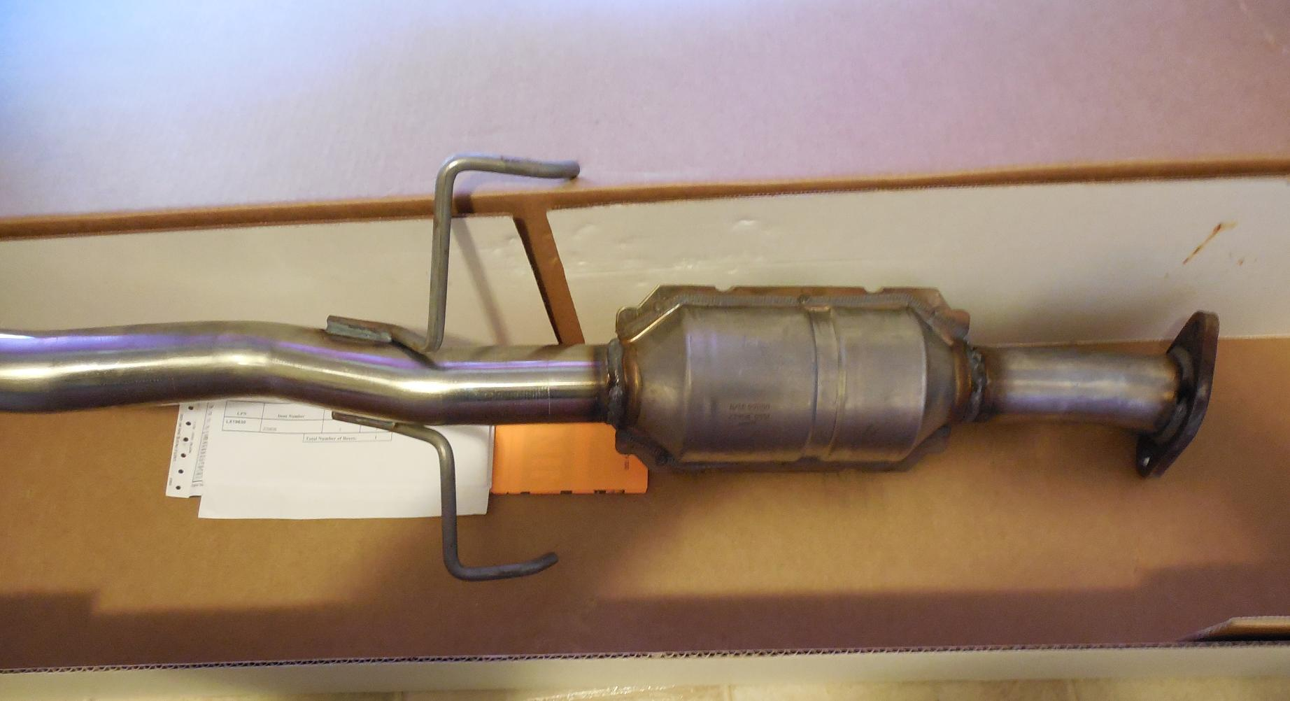 Magnaflow, stainless steel, downstream, high flow, catalytic converter for Mazda Protege5